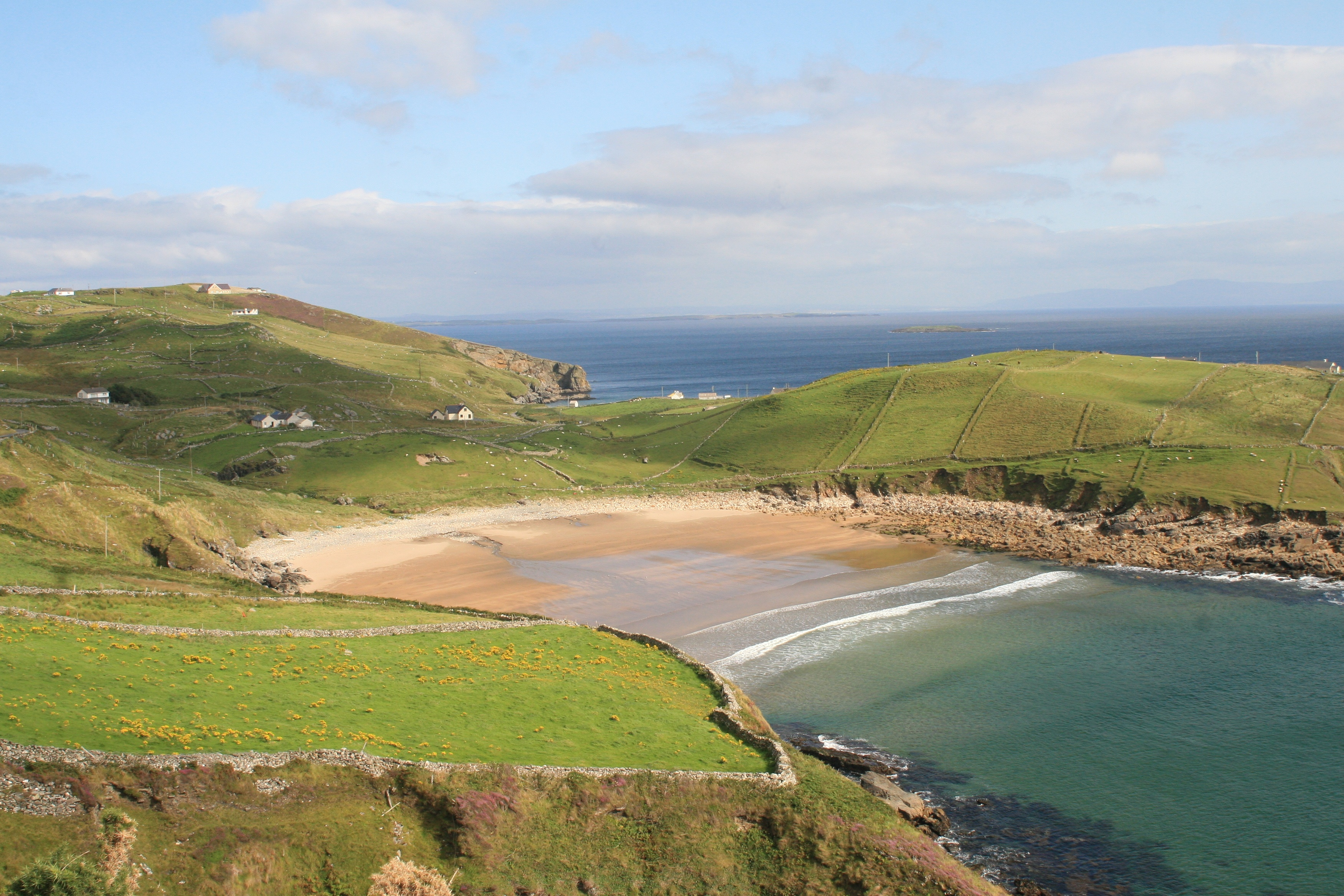 Muckros, County Donegal, Ireland Peninsula of Muckros, as seen from the Traloar viewpoint at the coast road between Kilcar and Shalwy, looking southeast. Behind the peninsula, the small island Inishduff is to be seen. Far at the horizon, the peninsula south of Dunkineely is to be seen up to St. John's Point and, on the right side, the Sligo coastline along with Benbulben can be recognized.